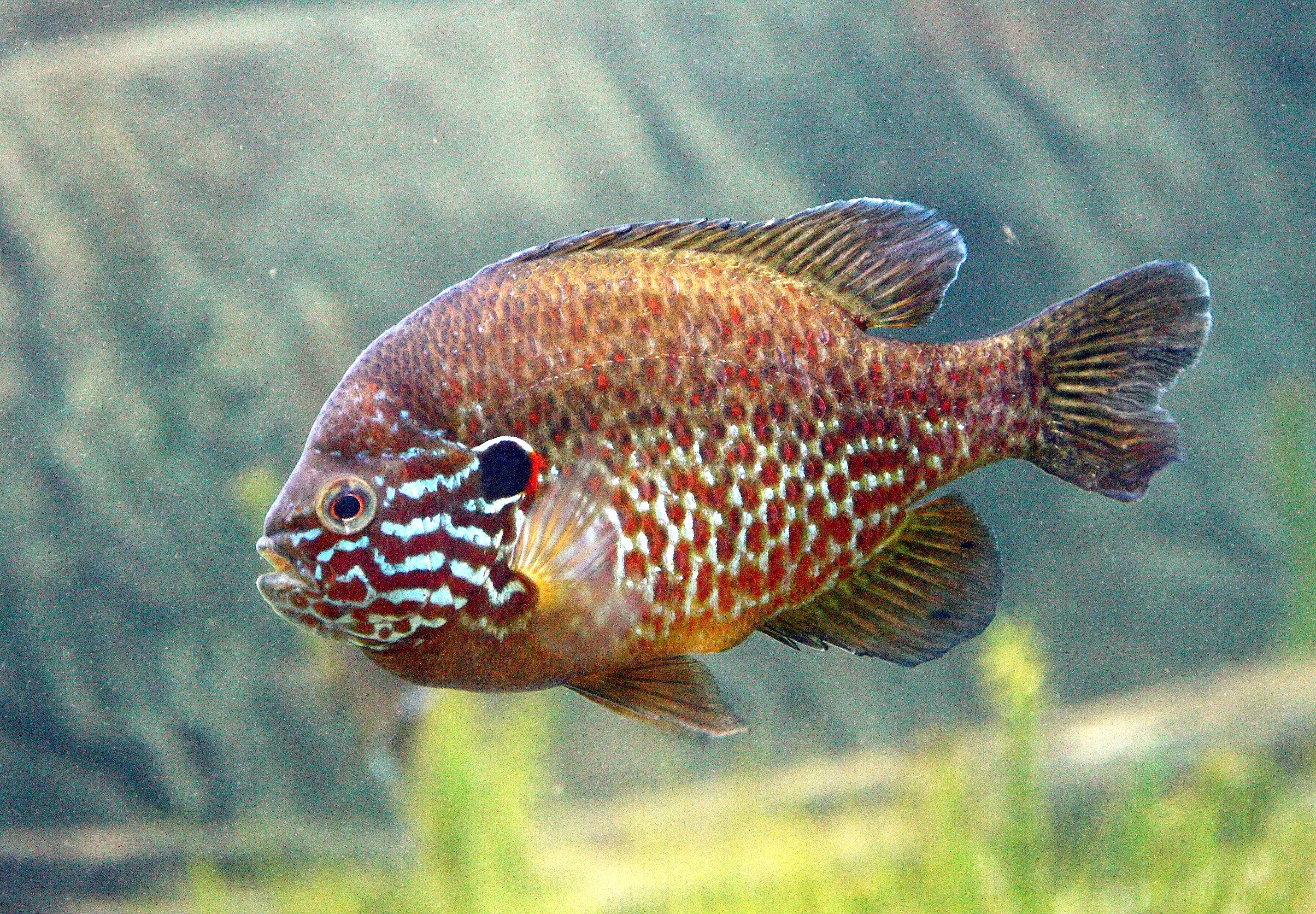 Pumpkinseed, Aquarium du Québec